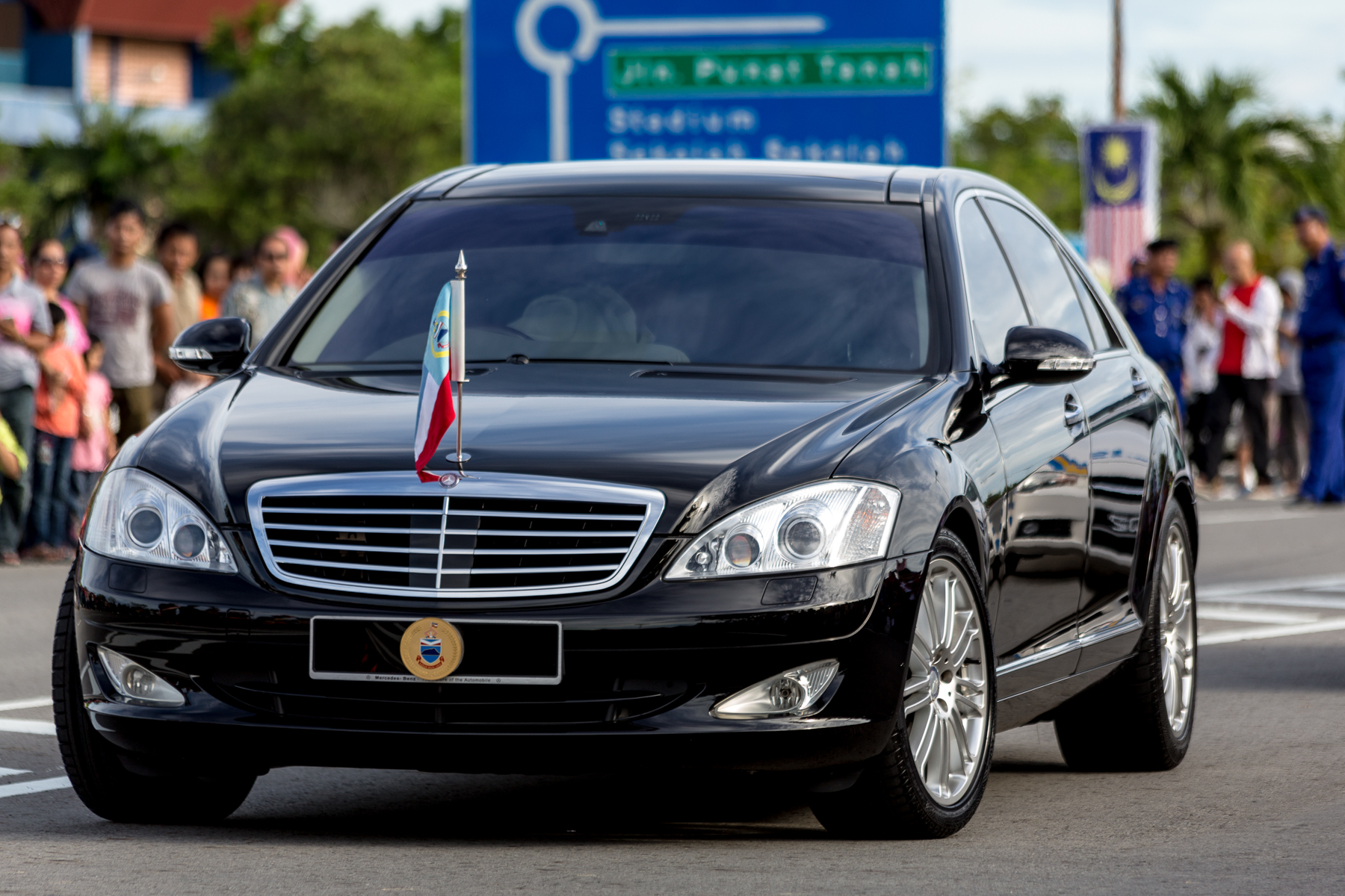 Kota Kinabalu, Sabah, Malaysia: Limousine of Juhar Mahiruddin, 10th Yang di-Pertua Negeri Sabah while arriving at the celebrations of Hari Merdeka 2013 in Likas on August 31, 2013